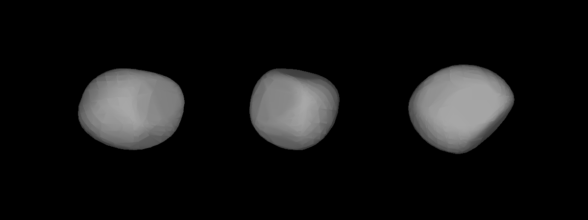 A three-dimensional model of 54 Alexandra that was computed using light curve inversion techniques.